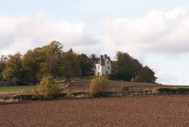 Pitcullo castle. Pitcullo Castle. Beautifully restored L plan tower house from the late 1500’s. Originally home to the Pitcairn family.